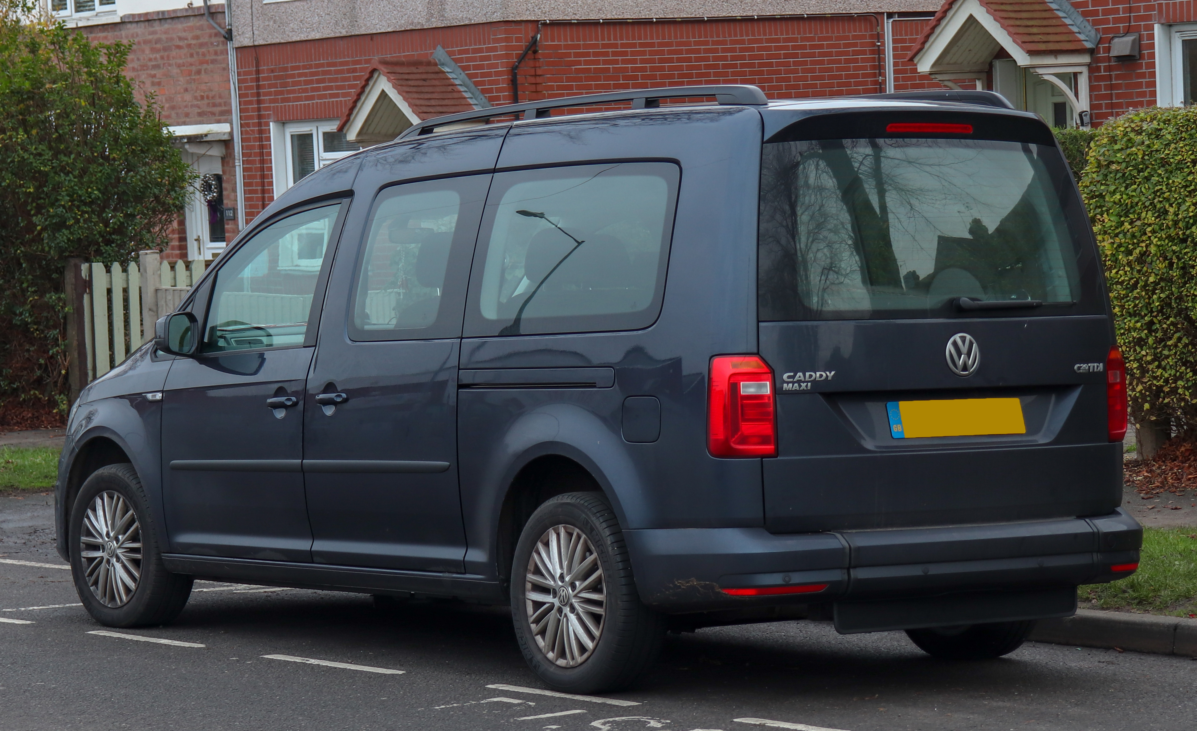 2017 Volkswagen Caddy Maxi C20 Life TDi S 2.0 Rear Taken in Warwick